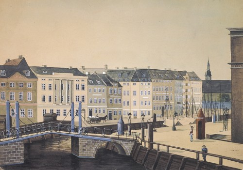 The bridge Højbro at Gammel Strand in Copenhagen, Denmark. In the background is the house row of Ved Stranden and the spire of Church of Holmen.